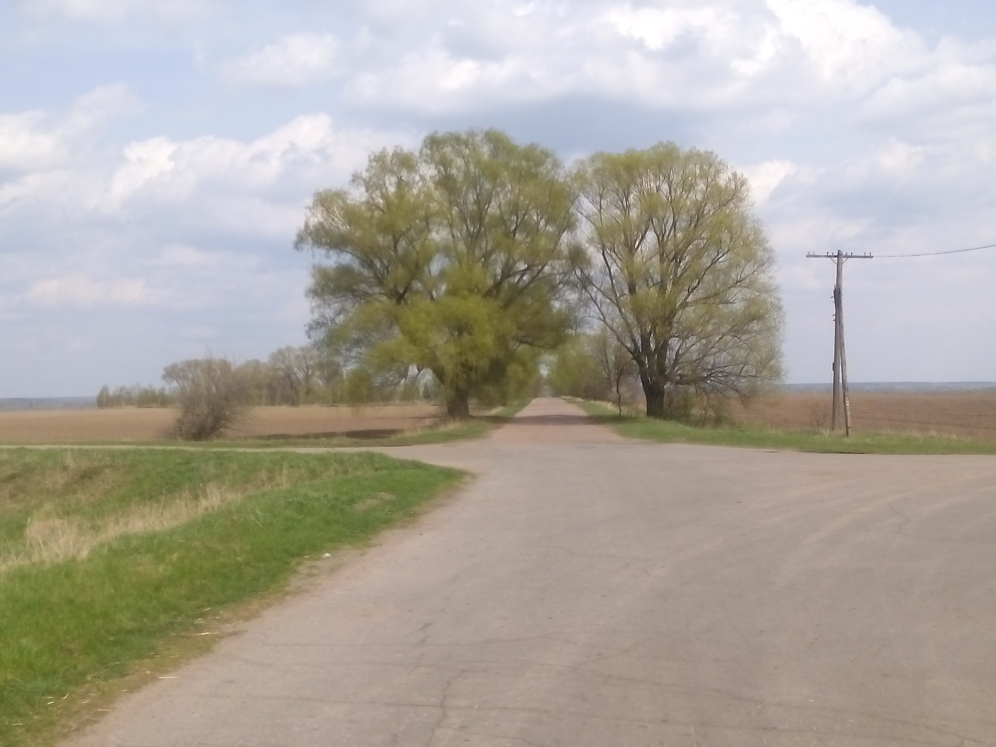 village Tovstolis, Chernihiv Raion, Chernihiv Oblast, Ukraine